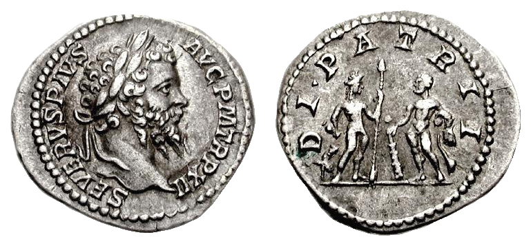 Septimius Severus. AD 193-211. AR Denarius (3.09 g, 12h). Struck AD 204. SEVERVS PIVS AVG P M TR P XII, laureate head right DI PATRII, Bacchus on left, standing front, head right, holding cup and thyrsus; facing him, Hercules on right, standing front, head left, holding club set on ground and lion-skin; at feet of Bacchus, left, panther. Cf. RIC IV 762 (Sestertius); RSC -. Good VF, toned. Unpublished as a denarius. Unique. From the Robert Kutcher Collection. This issue was struck to celebrate the secular games held in Rome in 204 AD. Although this reverse legend is previously unknown on silver issues of Septimius, it is known on his sestertii, as well as aurei of Caracalla (RIC IV 76). The reverse type is the same as that known on the more common COS III LVDOS SAECVL FEC issue (RIC IV 257).